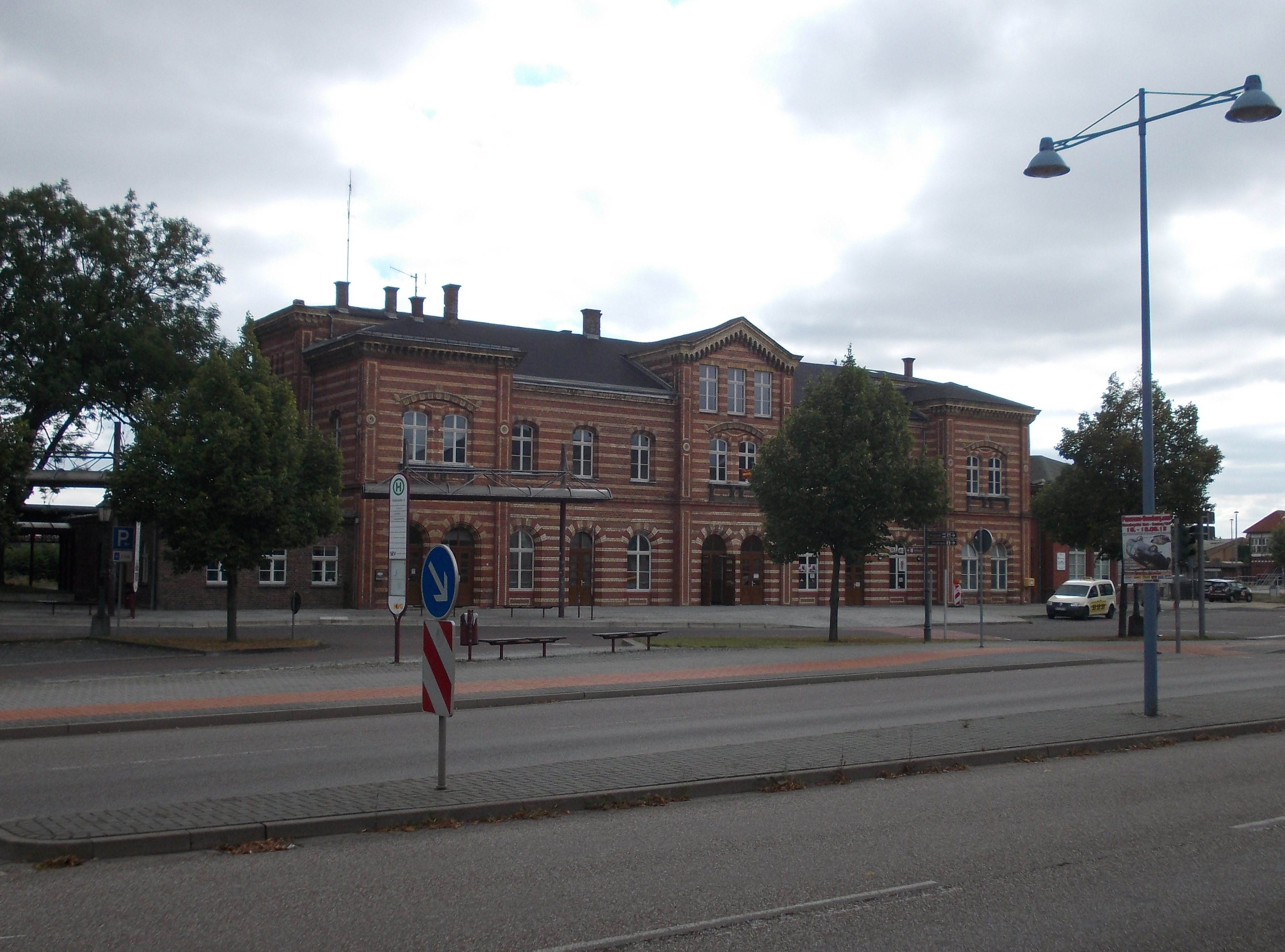 Bernburg (Saale) train station